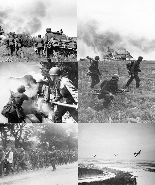 Clockwise from top left: German soldiers advance through Northern Russia, German flamethrower team in the Soviet Union, Soviet planes flying over German positions near Moscow, Soviet prisoners of war on the way to German prison camps, Soviet soldiers fire at German positions.